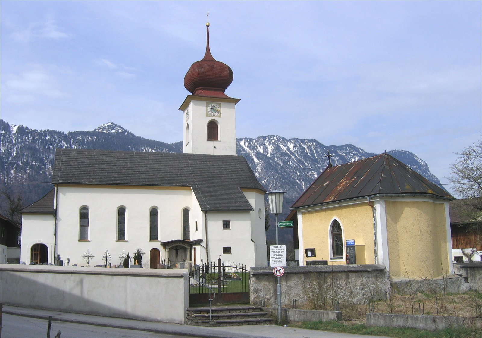 Oberlangkampfen, St George's Subsidiary Church from south-west.